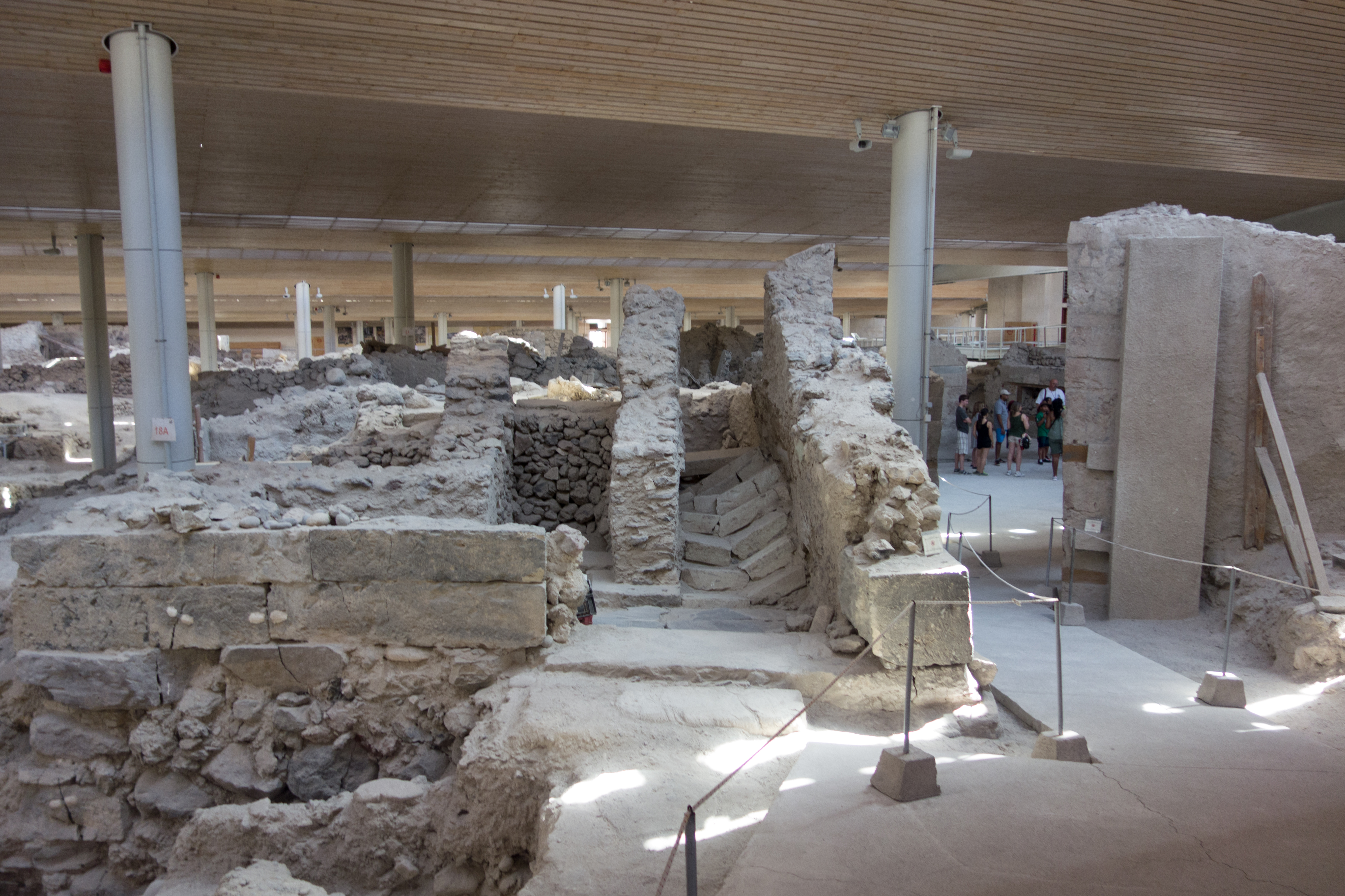 Broken stairs.«Ακρωτήρι Θήρας»